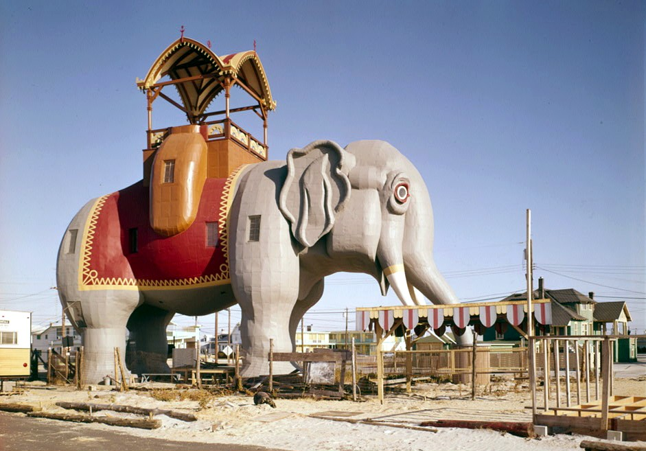 Lucy the Margate Elephant, Atlantic Avenue & Decatur Street, Margate City, Atlantic County, NJ.